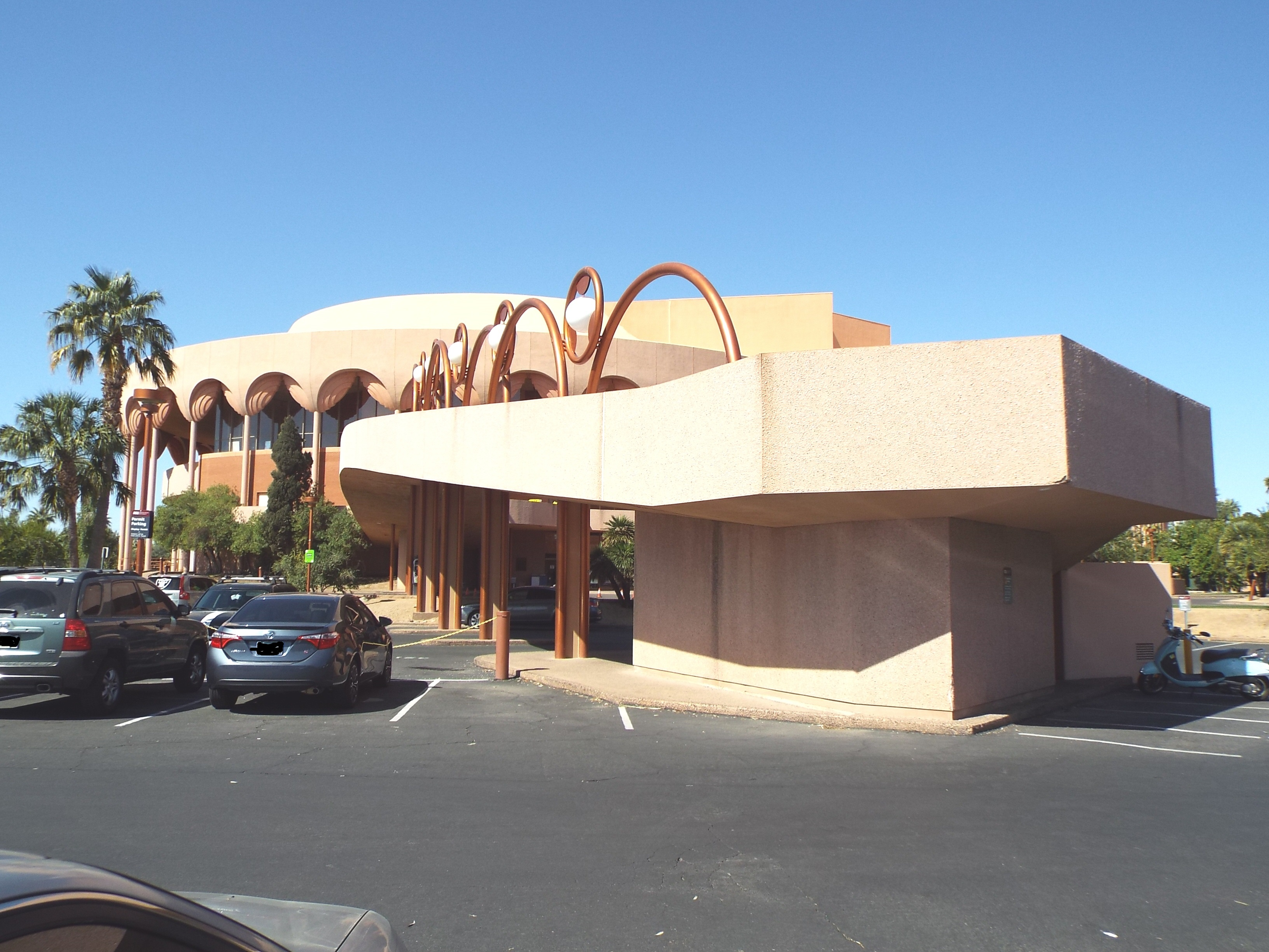 The Grady Gammage Memorial Auditorium was built in 1950 and is located on the Northeastern Corner of Mill and Apache Aves. It is also known as Building #140 . It was listed in the National Register of Historic Places in September 11, 1985, reference #85002170.